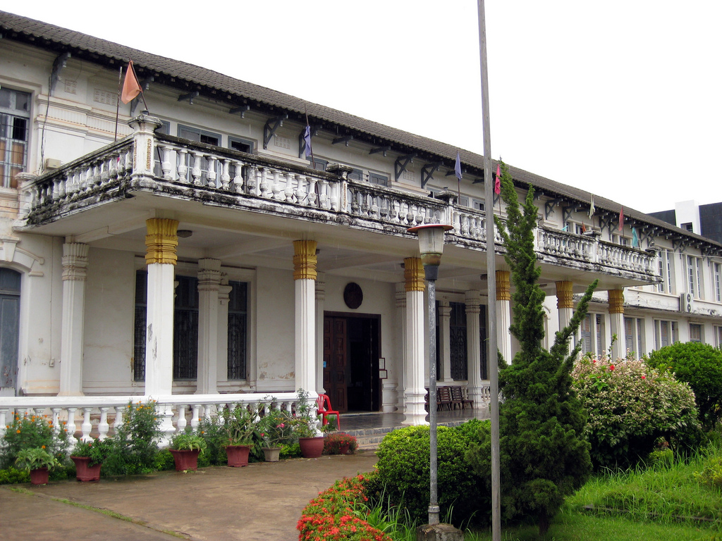 From Flickr: National Museum City of Vientiane, Laos